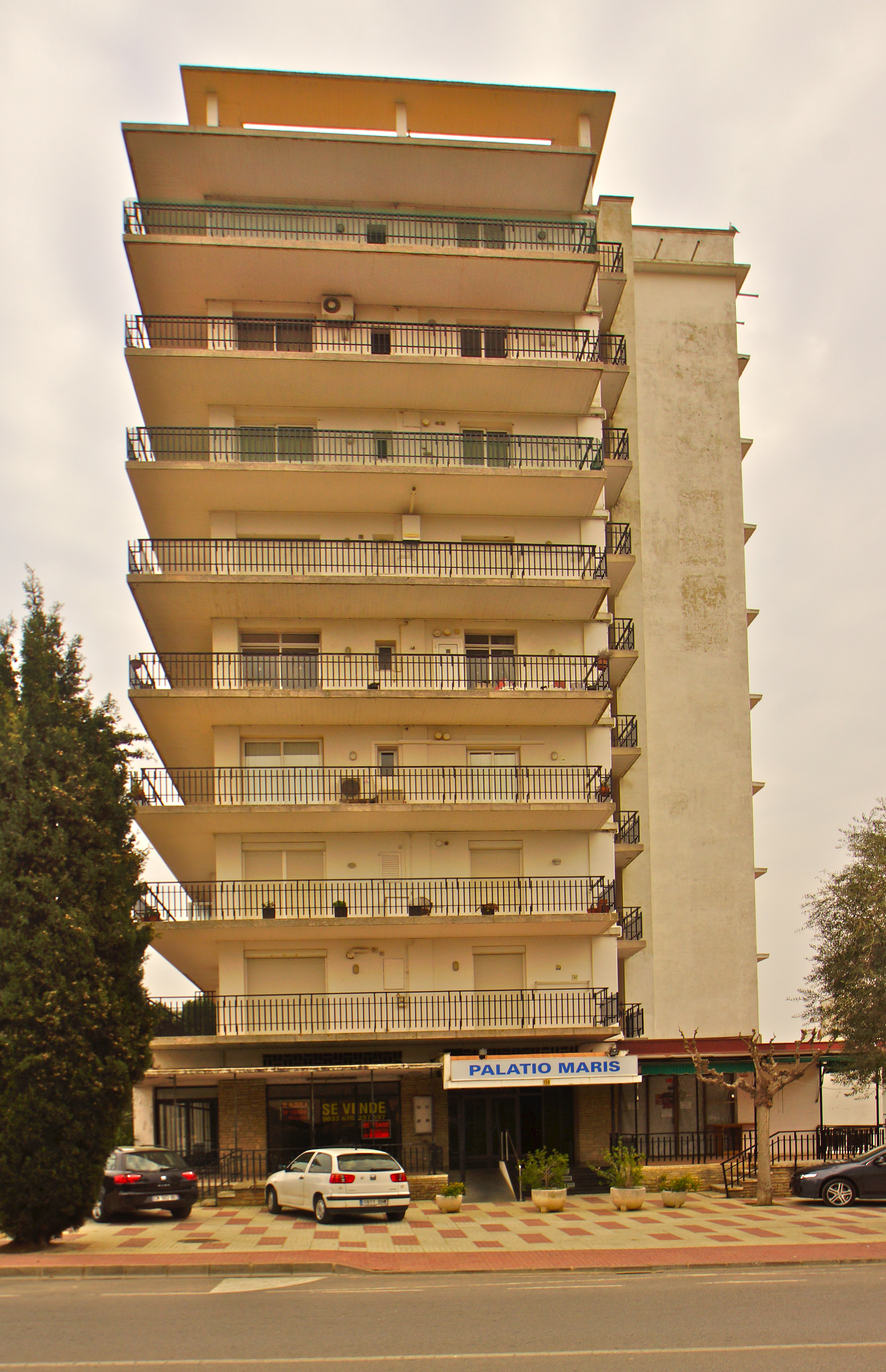 Castell-Platja d'Aro (Platja d'Aro), Catalonia: Palatio Maris built on the archeological site of the Roman villa Pla de Palol